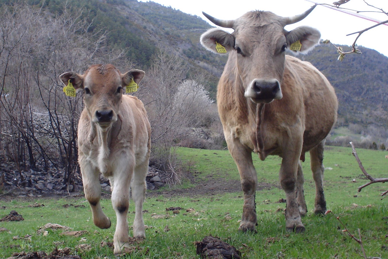 Cow and calf